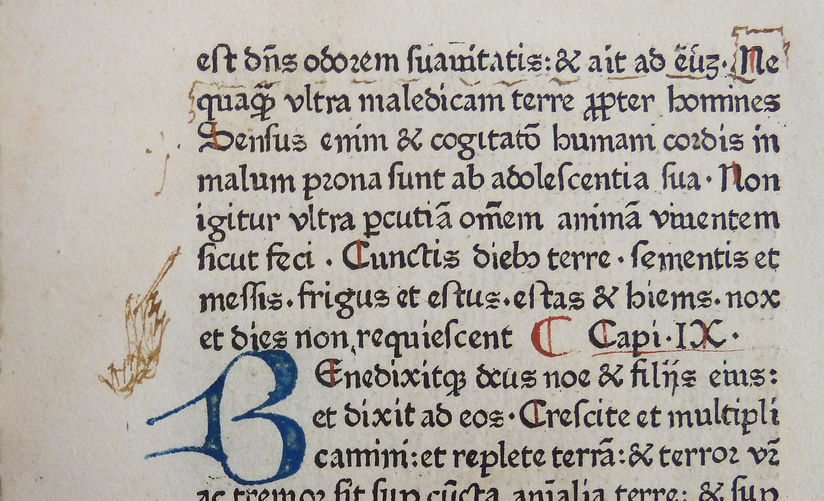 Detail of leaf [a]6v of an incunable edition of the Bible in Latin (Nuremberg: Anton Koberger, 16 Nov. 1475; ISTC ib00543000) with rubrication and ms. manicule in brown ink